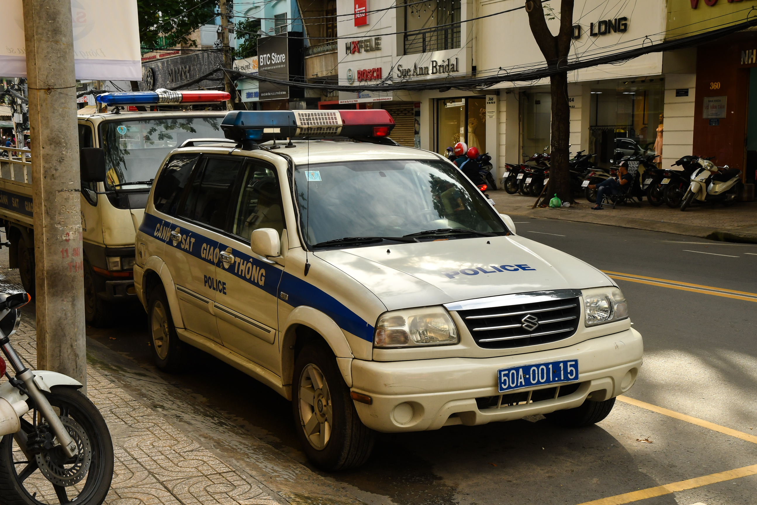 Ho Chi Minh City Police, Vietnam